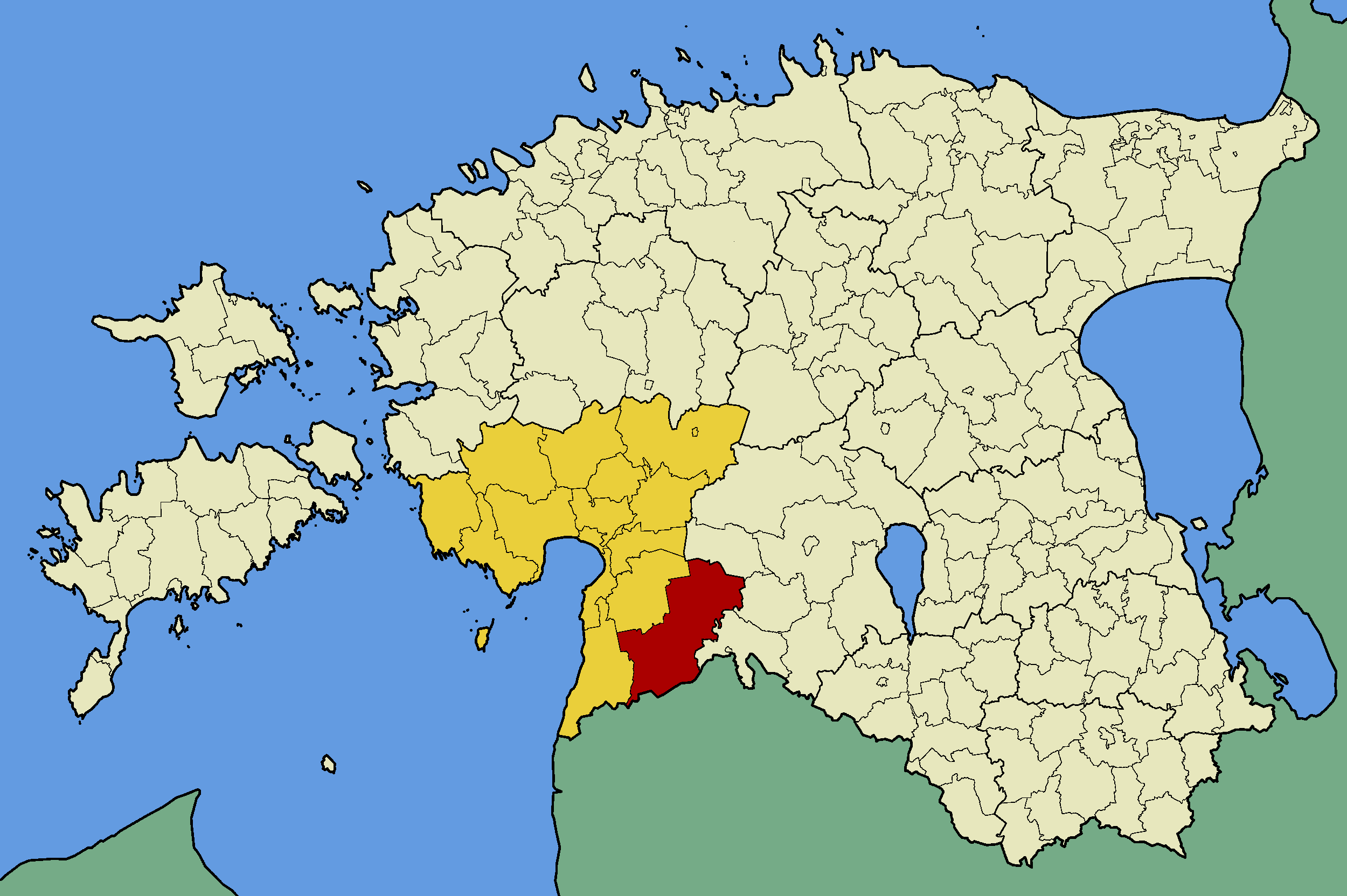 Map of Estonia with borders of municipalities (parishes). Pärnu county and Saarde municipality emphasized.